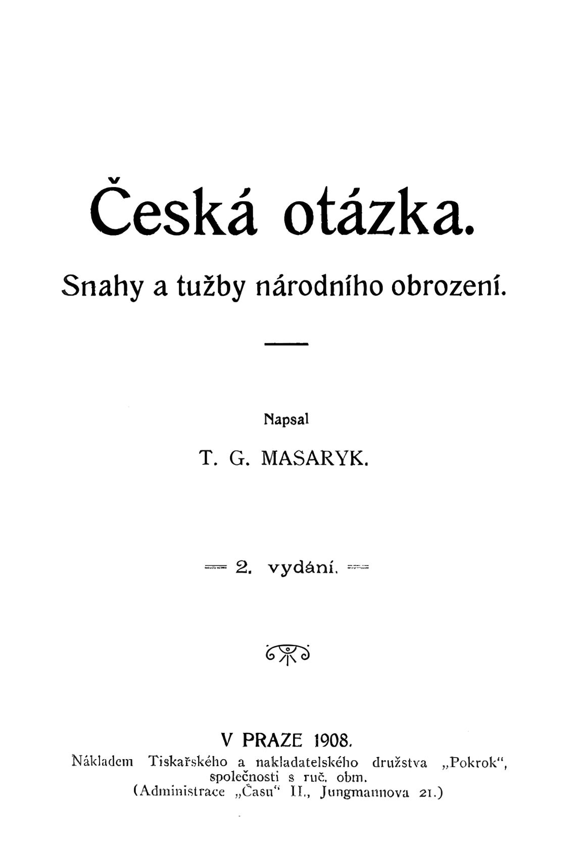 Title page of the second edition of Česká otázka (Czech Issue), a work by Professor Tomáš Garrigue Masaryk.